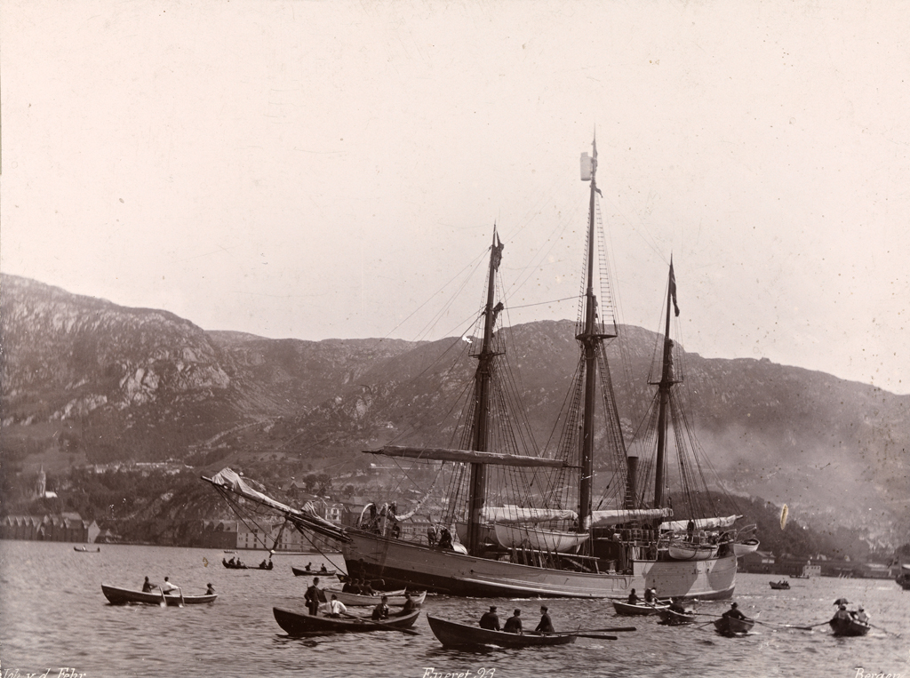 Nansen's Fram expedition: Nansen's expedition ship Fram leaving Bergen, 2 July 1893, bound for the Arctic